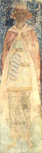 Virgil. Fresco from the Annunciation Cathedral in Moscow.